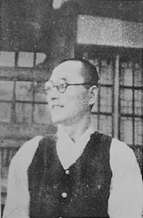 Yi Gwang-su, a Korean writer, poet, novelists, in 1931 Seoul